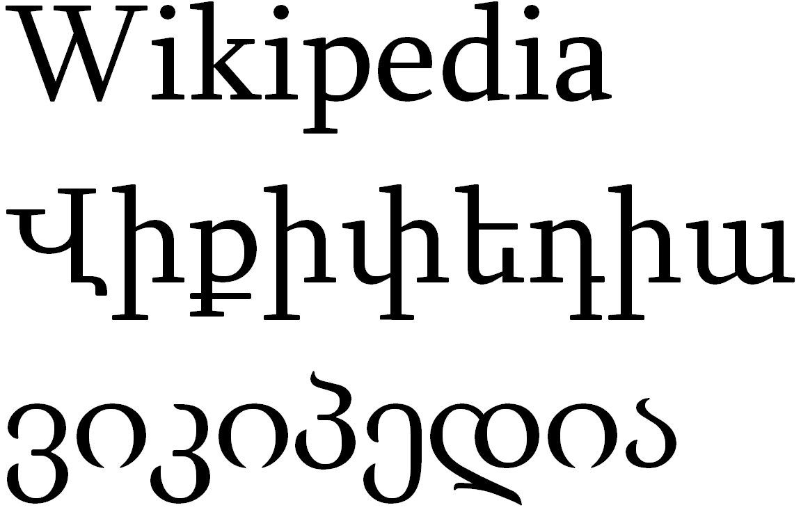 "Wikipedia" in English, Armenian and Georgian, using the Sylfaen font